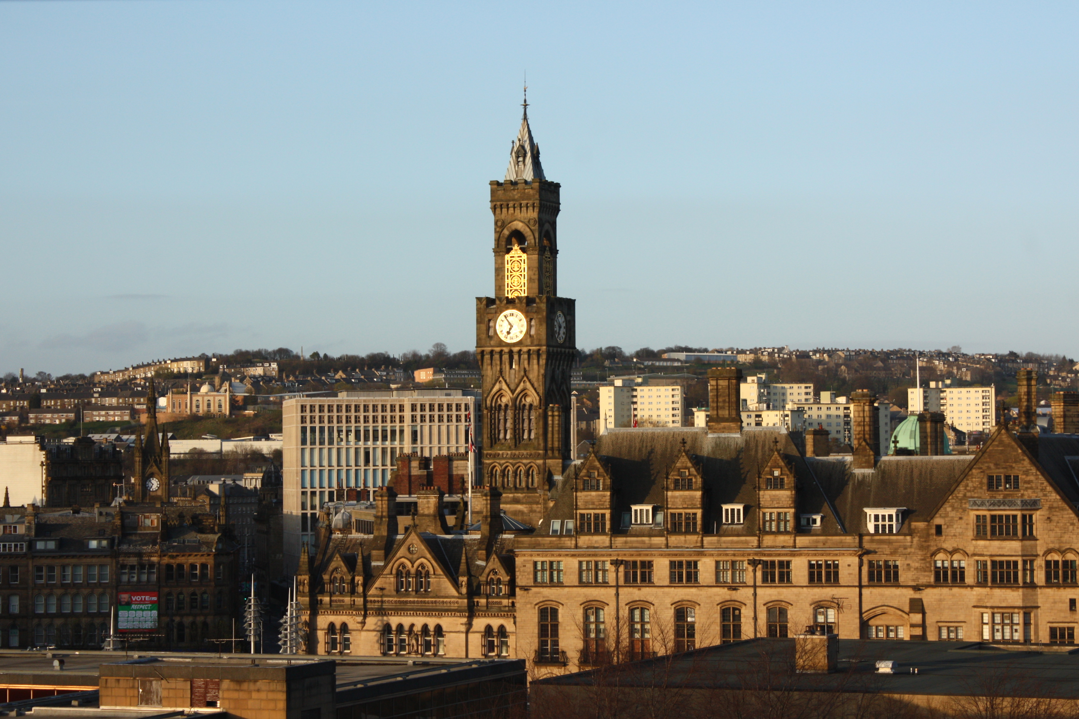 Bradford City Hall, taken from the 8th floor seminar suite at the National Media Museum.